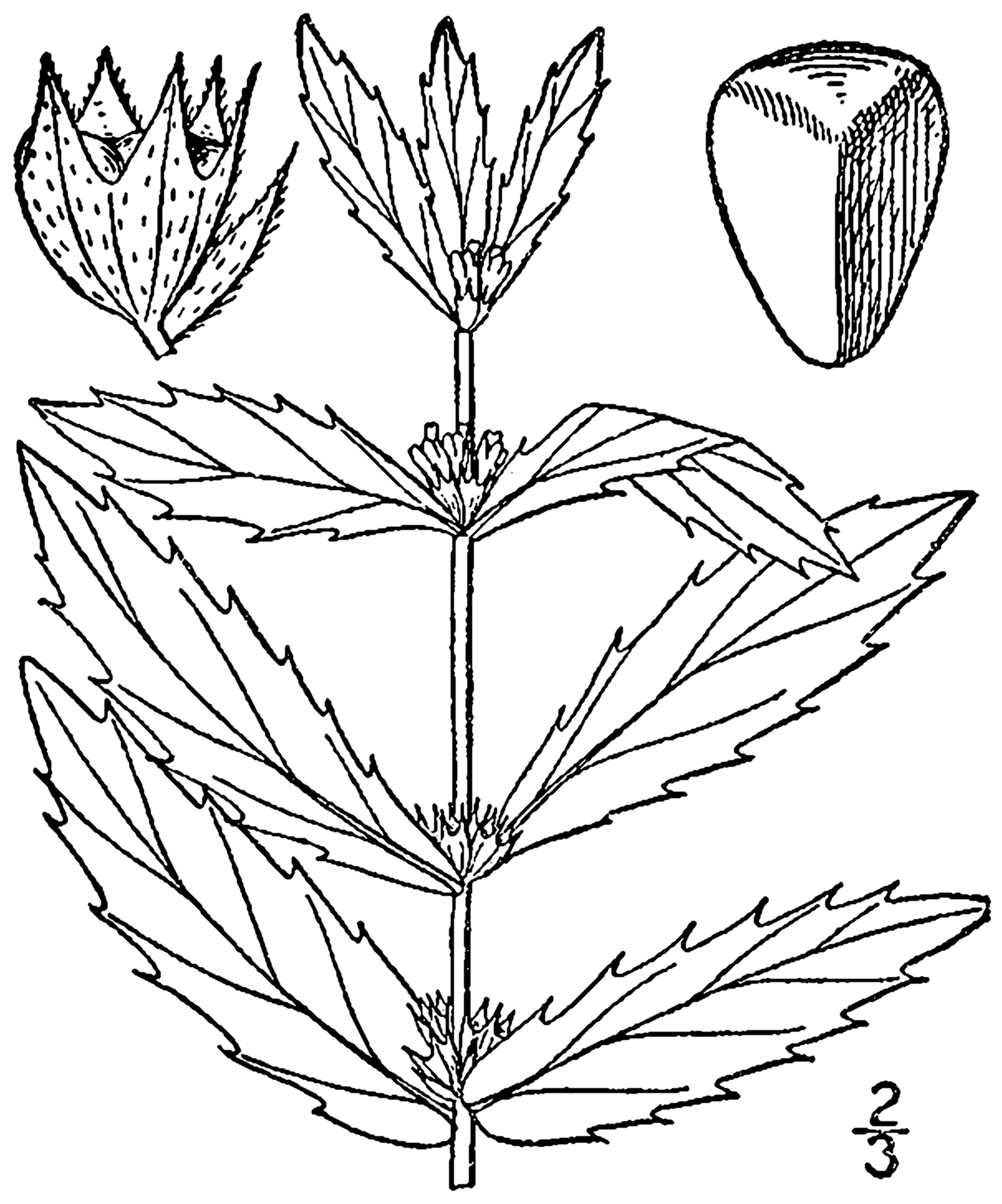 Lycopus asper Greene - rough bugleweed